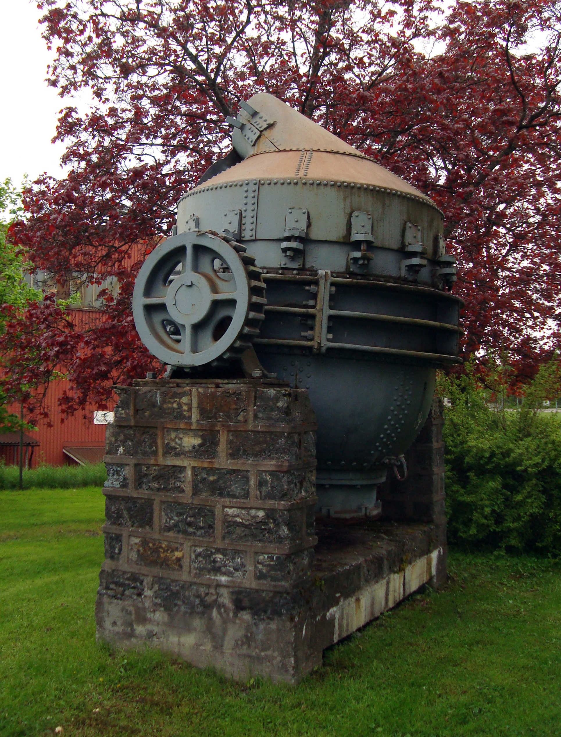 Bessemer converter, Långshyttan, Sweden